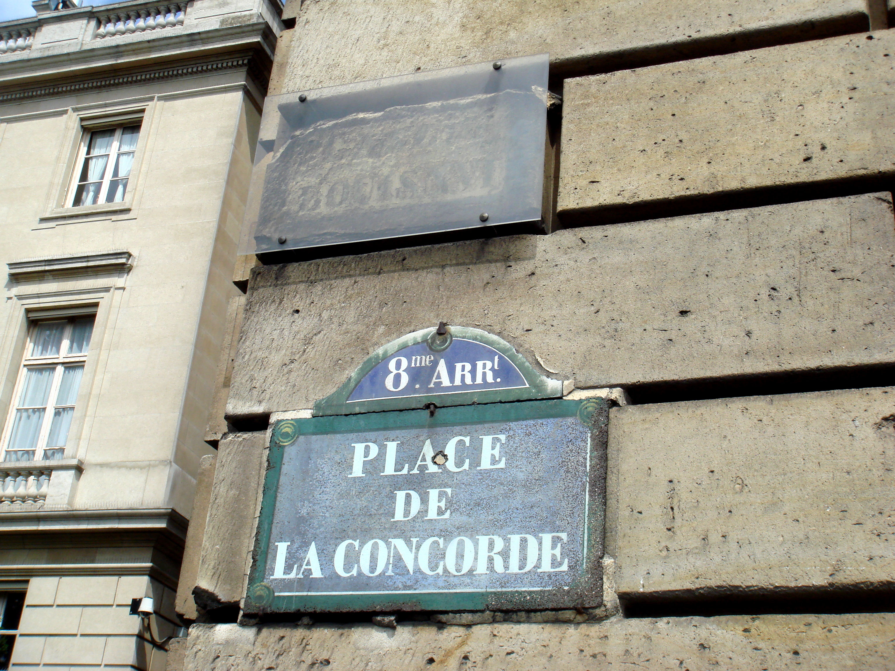 Place Louis XVI plaque, using between 1826 and 1830